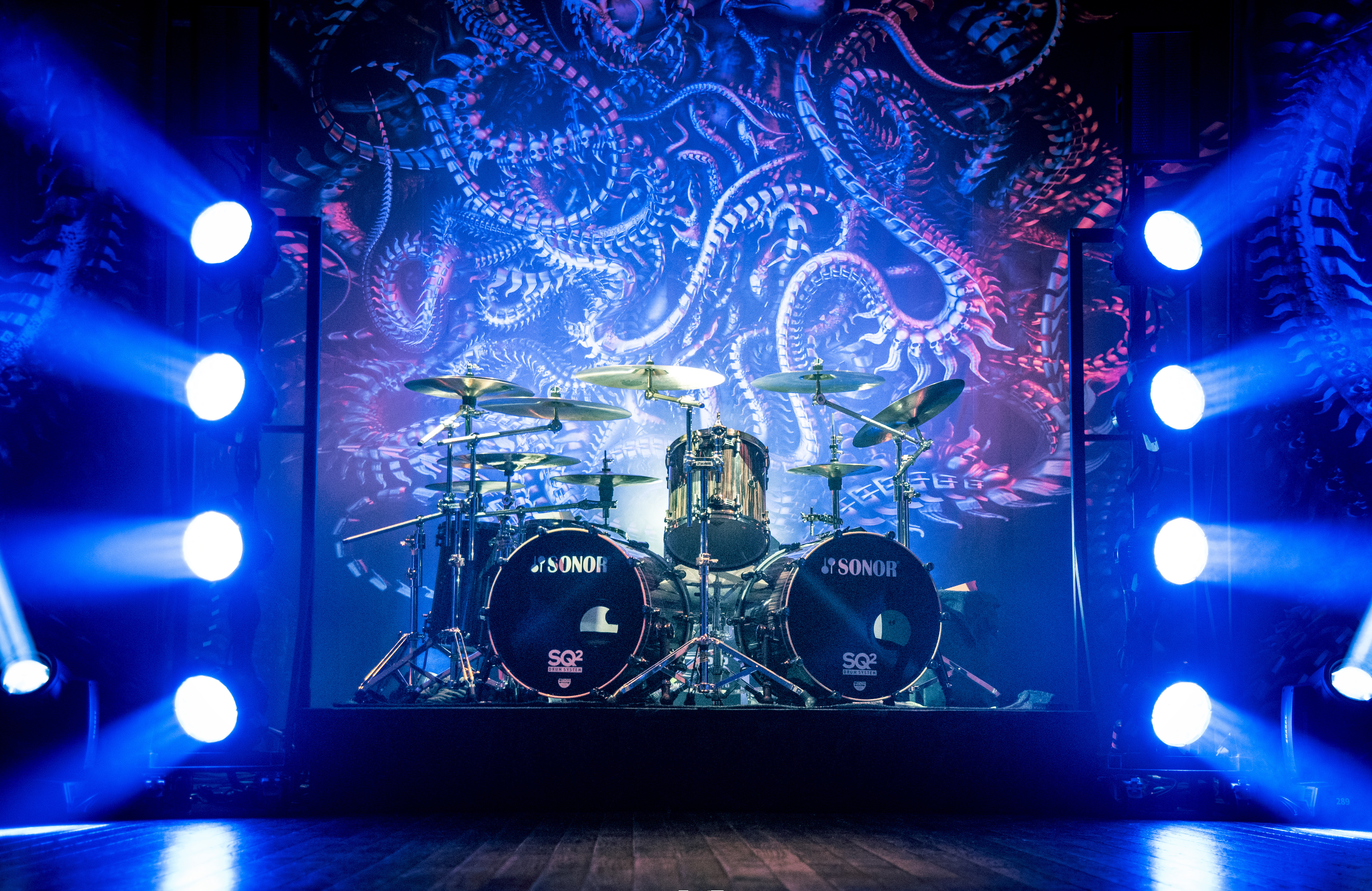 Drummer of Meshuggah, Tomas Haake, Drumkit, 2017